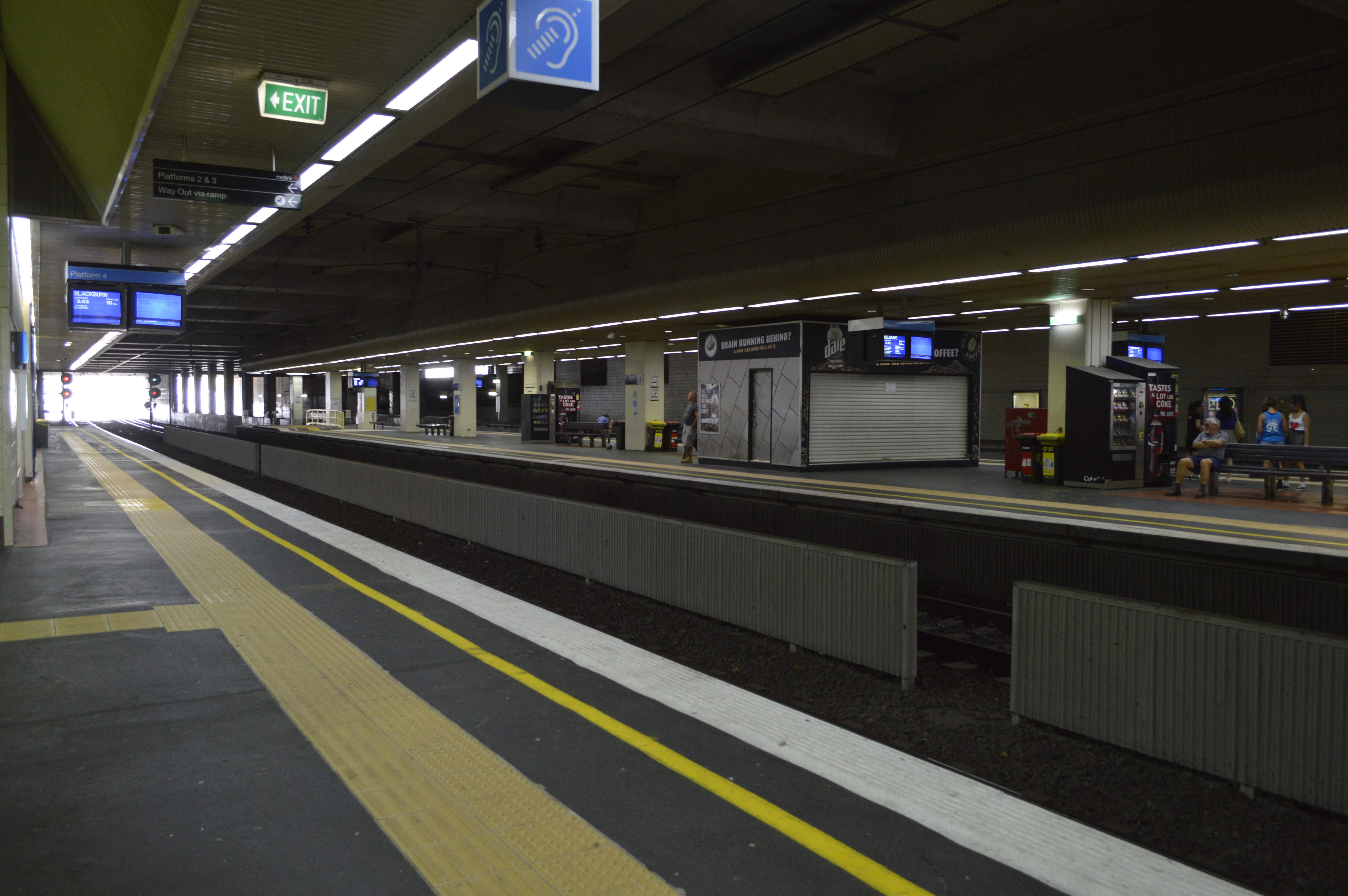 Taken on platform 4 looking east.